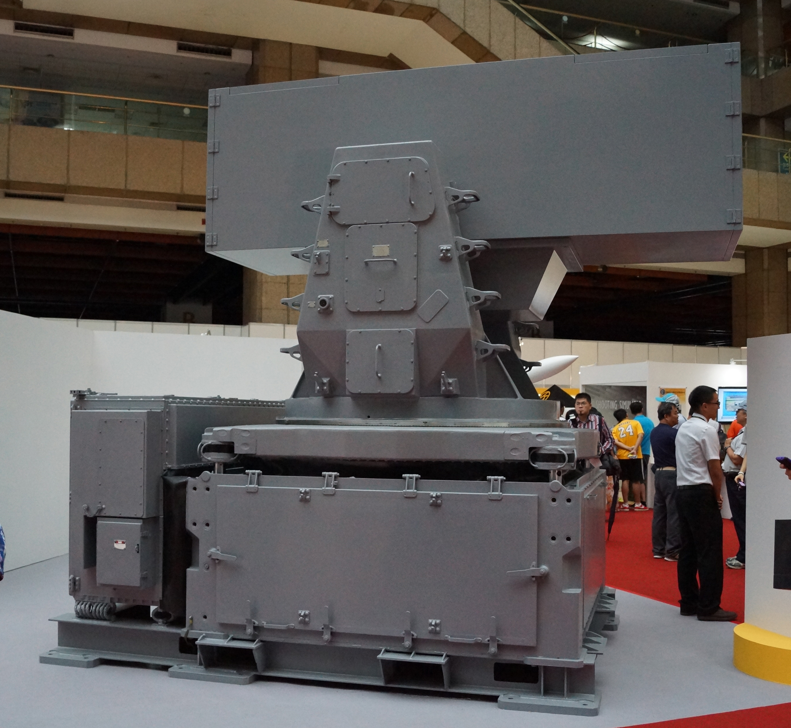 The right side of Sea Oryx Missile System at MND Hall, 2015 Taipei Aerospace & Defense Technology Exhibition.